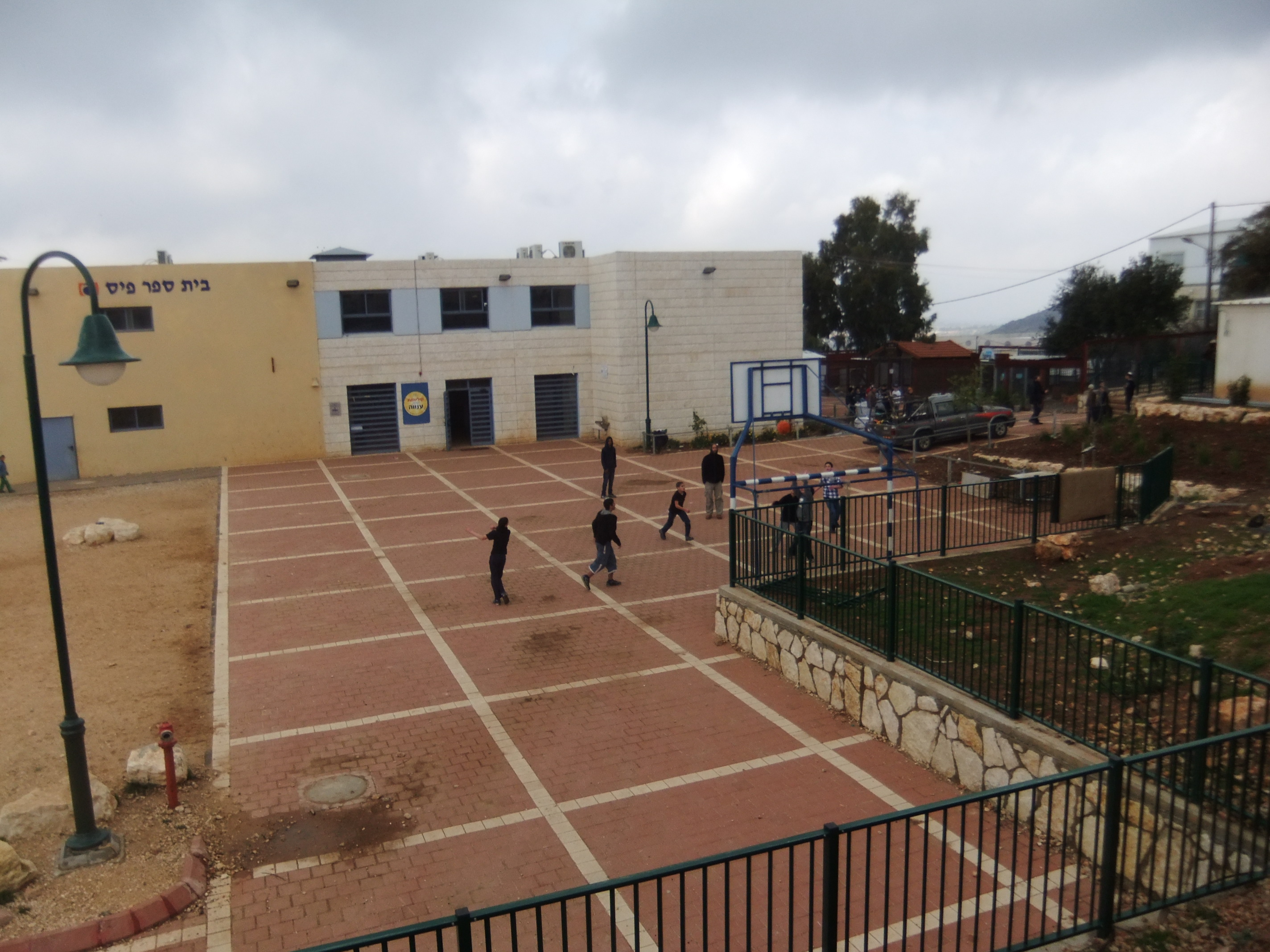 School yard in Shilo